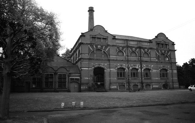 Boughton Pumping Station